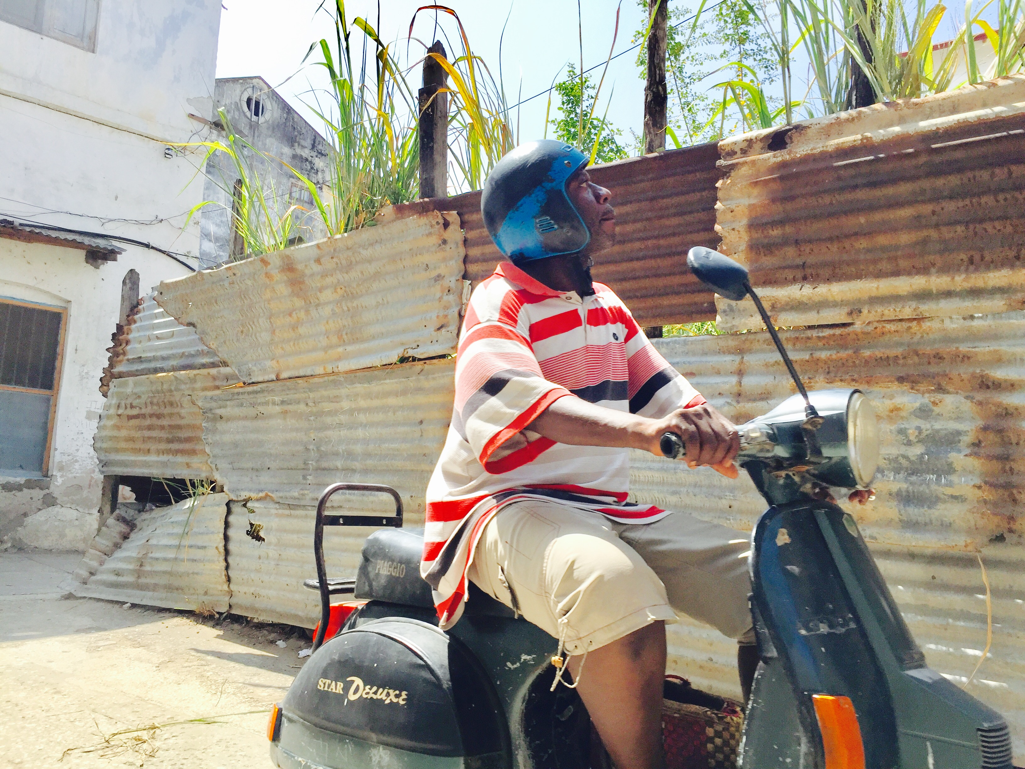 The Piaggio has found its way to Zanzibar. This is an image with the theme "Africa on the Move or Transport" from: Tanzania